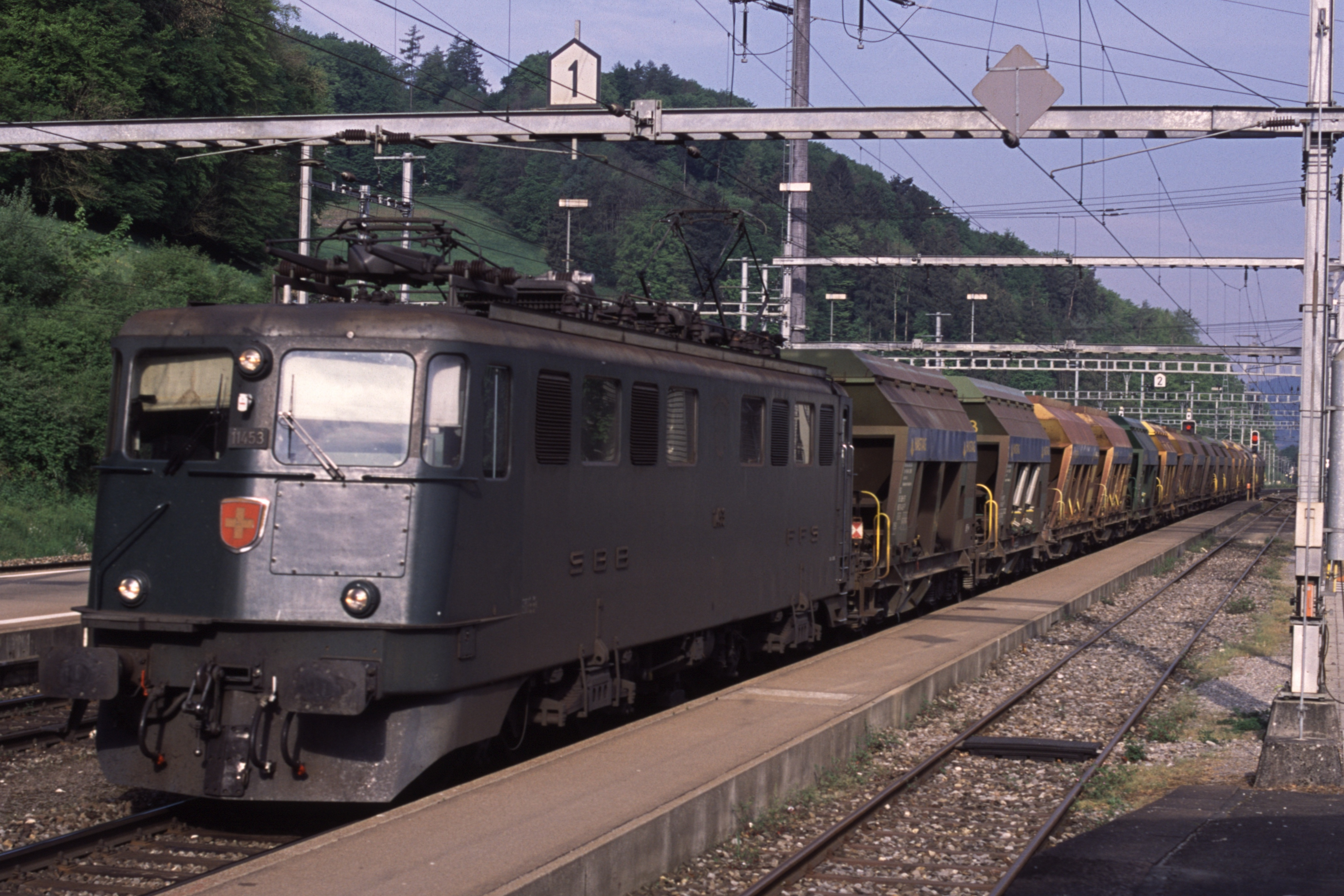 Ae 6/6 With gravel Train from Weiach